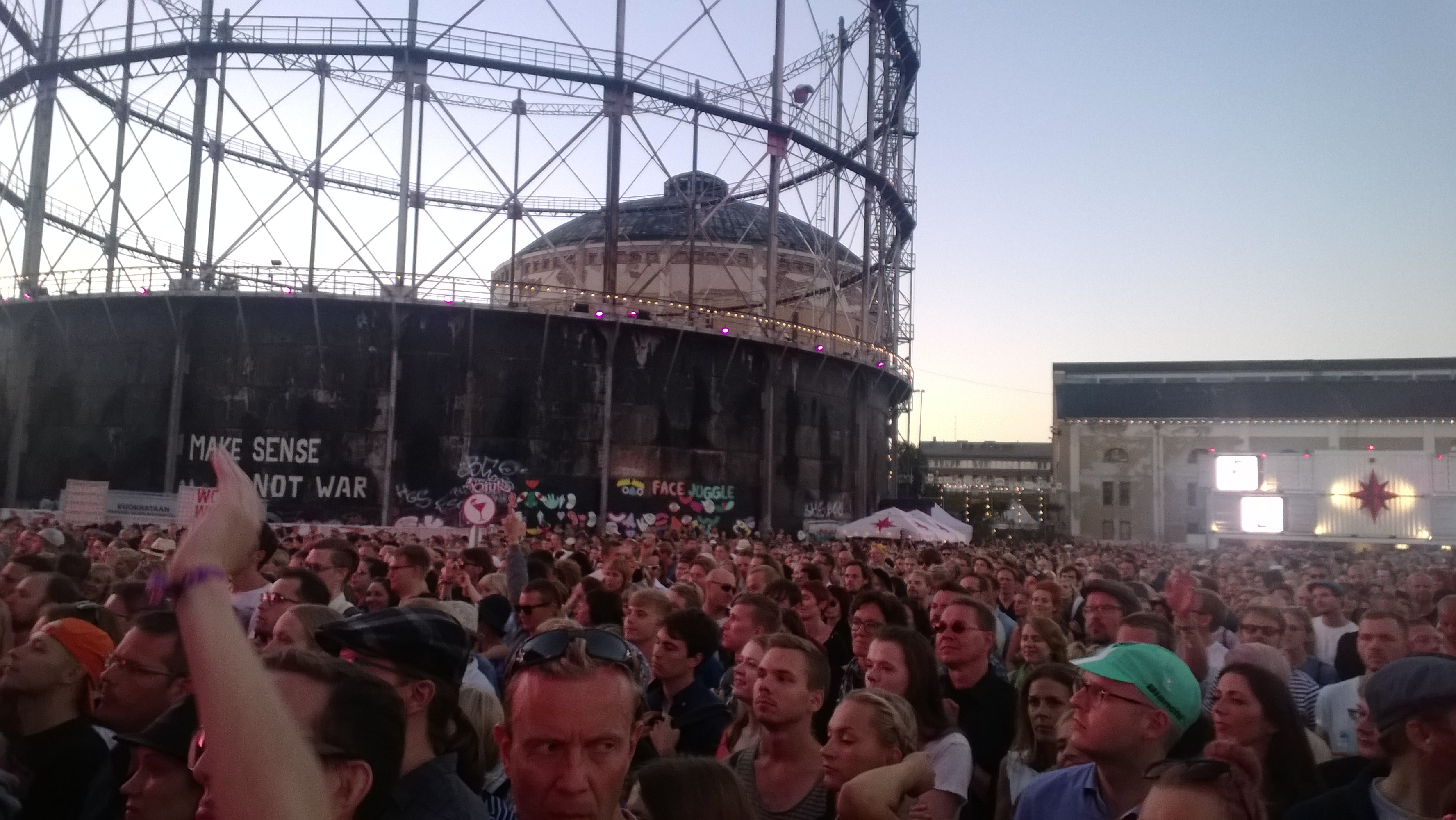 Flow Festival in Helsinki in August 2015